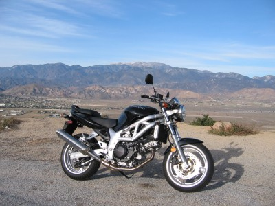 2002 Suzuki SV650 Picture taken Dec 2002 by User:Bob Palin